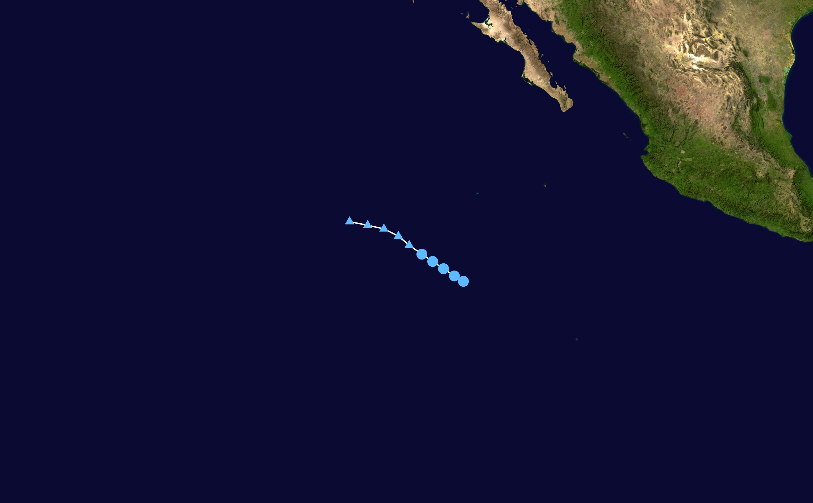 Track map of Tropical Depression One-E of the 2020 Pacific hurricane season. The points show the location of the storm at 6-hour intervals. The colour represents the storm's maximum sustained wind speeds as classified in the Saffir–Simpson scale (see below), and the shape of the data points represent the nature of the storm, according to the legend below. Saffir–Simpson scale Tropical depression≤38 mph≤62 km/h Category 3111–129 mph178–208 km/h Tropical storm39–73 mph63–118 km/h Category 4130–156 mph209–251 km/h Category 174–95 mph119–153 km/h Category 5≥157 mph≥252 km/h Category 296–110 mph154–177 km/h Unknown Storm type Tropical cyclone Subtropical cyclone Extratropical cyclone / Remnant low / Tropical disturbance / Monsoon depression